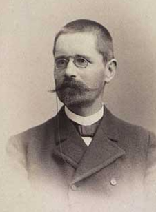 Den danske komponist Thomas Laub (1852-1927) Danish composer Thomas Laub